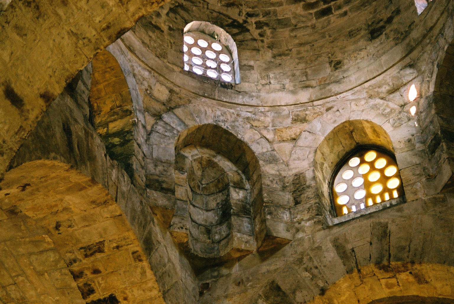 San Cataldo, Palermo Muqarna between a rectangular corner and the cupola